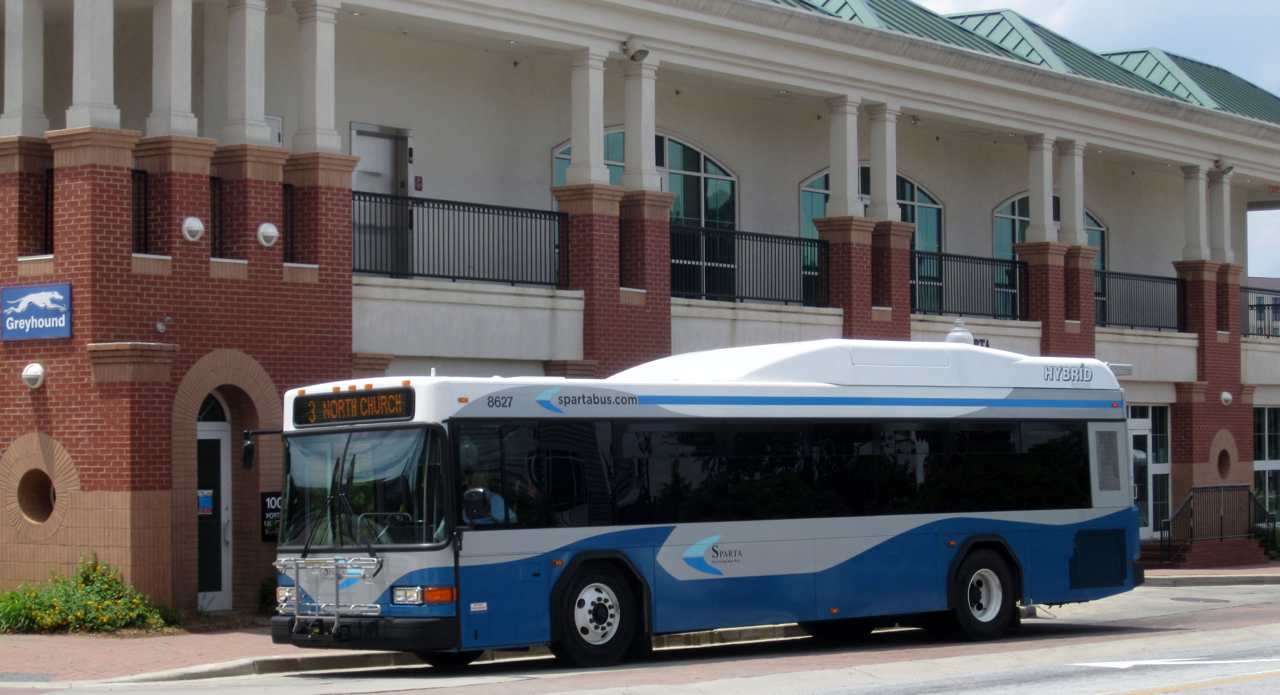 A hybrid SPARTA bus picks up riders at the SPARTA Passenger Center in downtown Spartanburg.